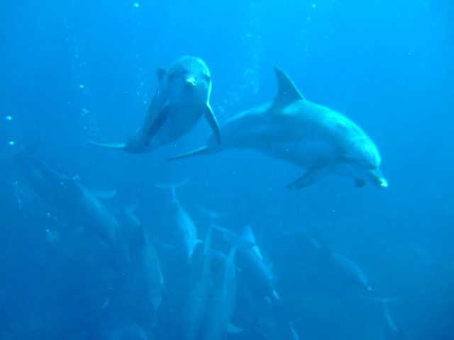 dolphin, Mikurajima